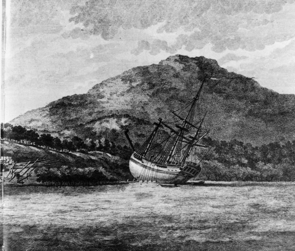 Detail of drawing by ship's artist Sydney Parkinson, made in June 1770, showing James Cook's Endeavour being careened on the beach at the mouth of the Endeavour River in Far North Queensland, Australia, in order to repair damages after having hit the Endeavour Reef (part of the Great Barrier Reef) on 11 June 1770.